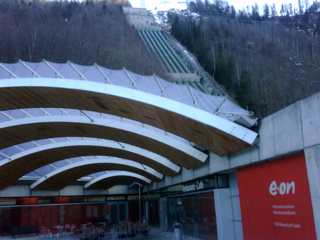 Besucherzentrum Walchenseekraftwerk